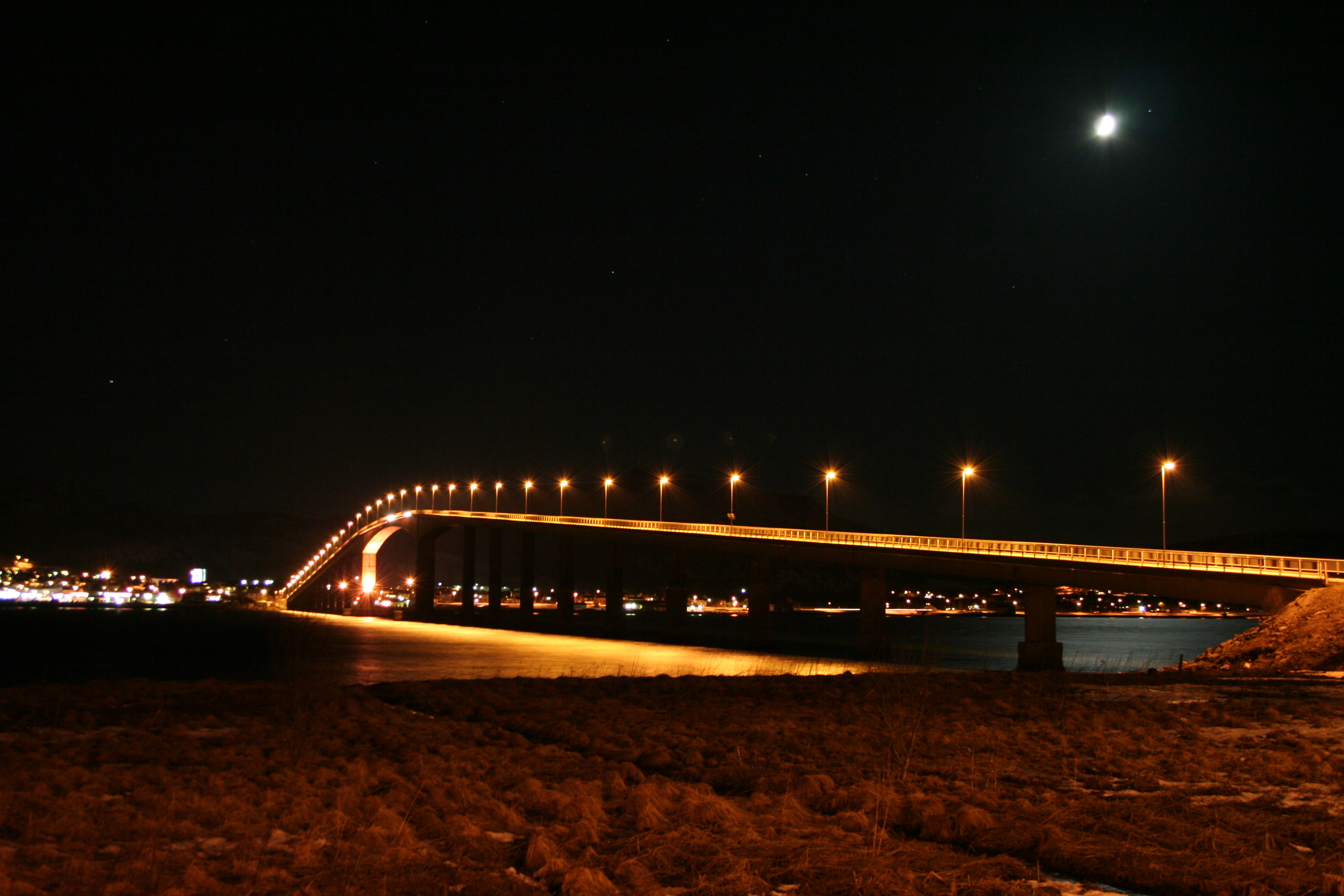 Sortland Bridge at night, taken from Strand towards Sortland. The photo was taken by me